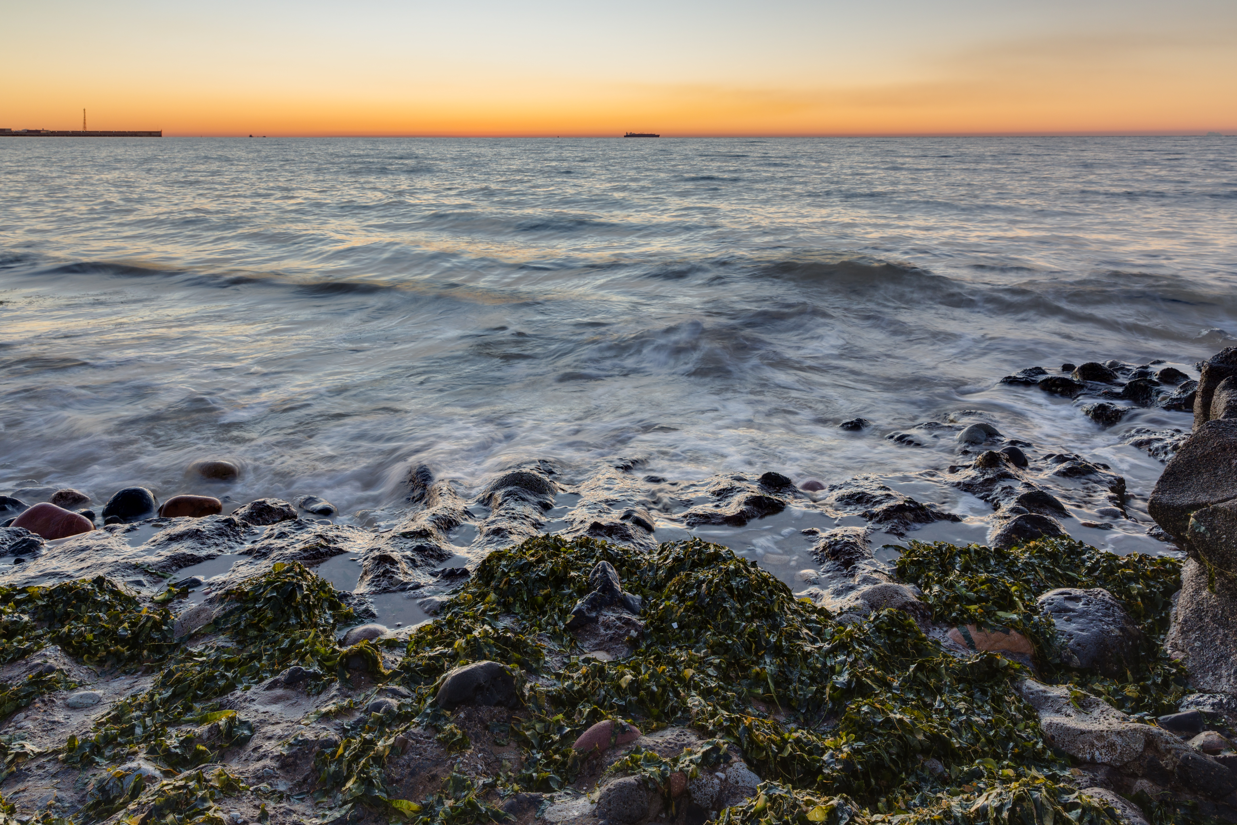 Grau Vell, SCI Marjal del Moro, Valencia, Spain